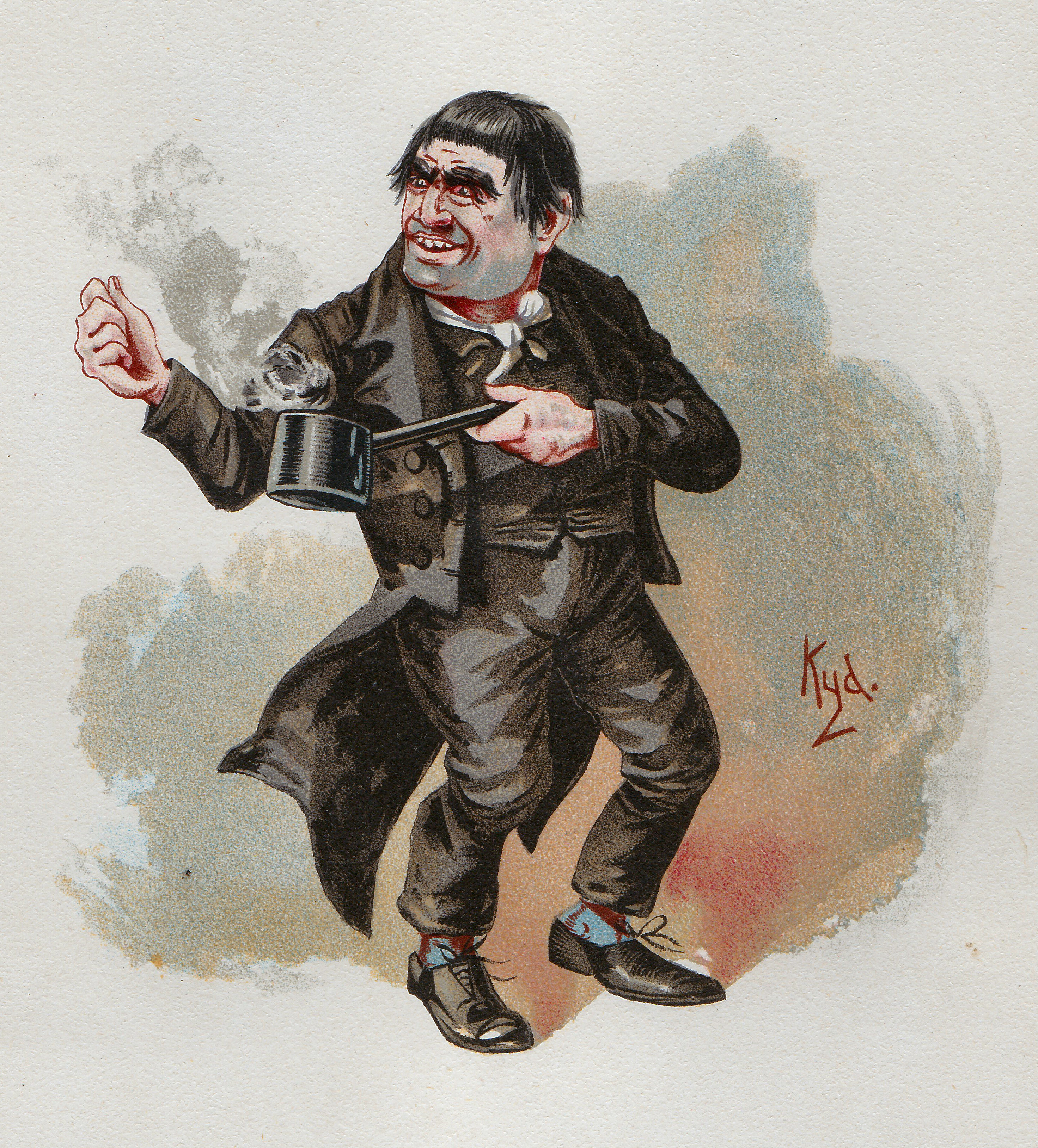 Watercolour of Quilp from The Old Curiosity Shop executed by 'Kyd'